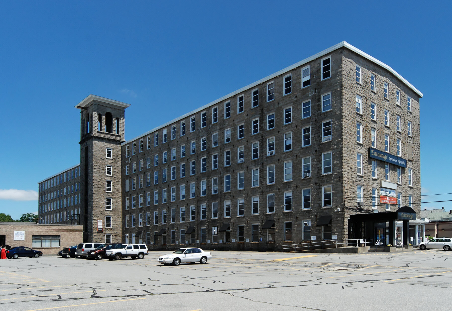 Granite Mill No. 2, Fall River, Massachusetts. Built 1871.